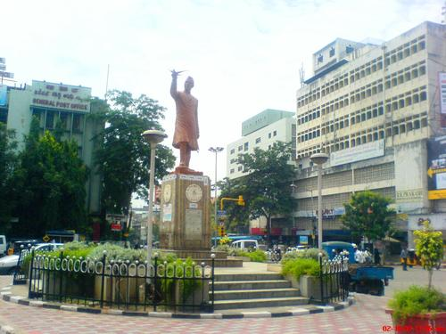 This image shows the abids circle, with the nehru statue.self-photographed